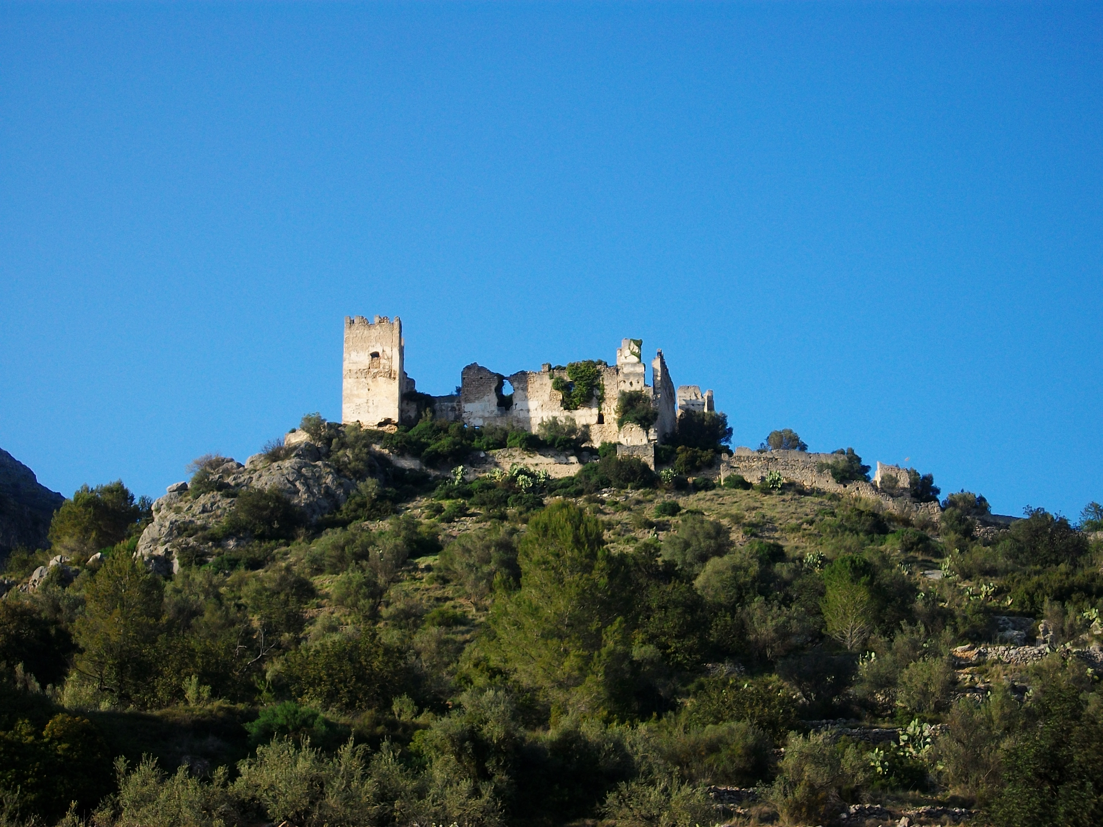 Castle of Perputxent.